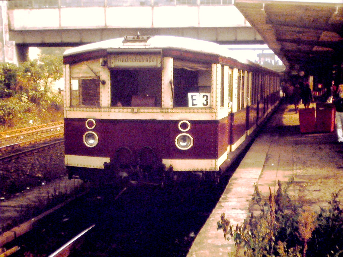 Ostkreuz - train to Friedrichstrasse